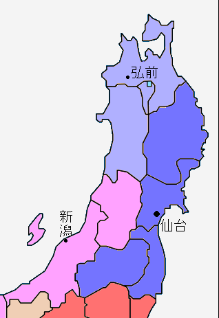 The Regions of Tohoku Chindai (東北鎮台). Chindais are army units of Japan since 1871 till 1885. Sendai (仙台) Headquater and the Hirosaki (弘前) branch and its areas. Niidata (新潟) was the first branch of Tokyo Chindai. Derivied of File:Gokishichido.svg.